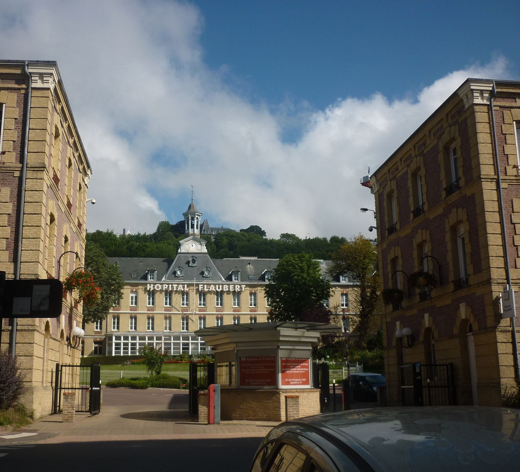 Flaubert Hospital in Le Havre, France